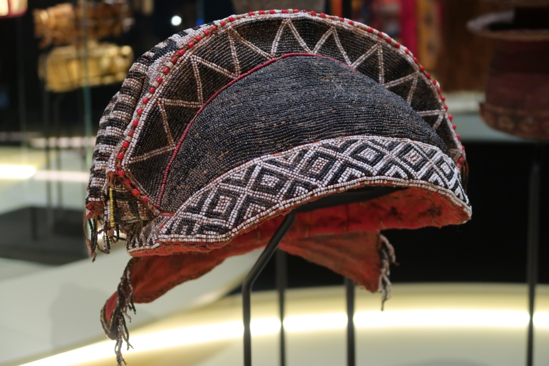 Headdress of male or female dignitary. 20th century. Africa, northeastern Angola, southwestern Democratic Republic of Congo. Chokwe and Lunda peoples. Vegetable fibers, textile, pearls. Donation Antoine de Galbert. Museum of Confluences, Lyon